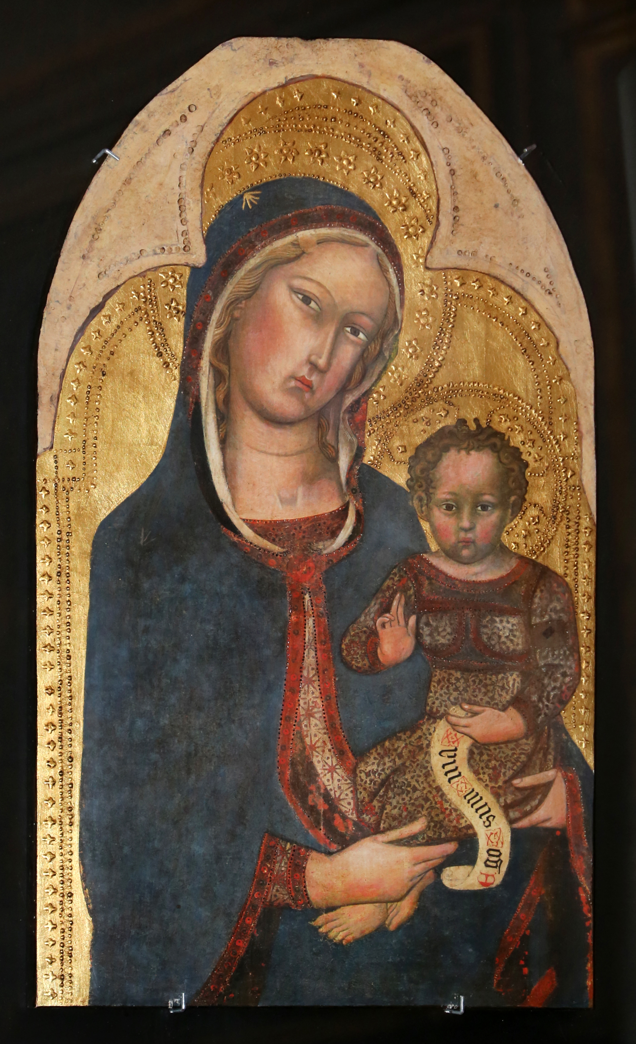 San Giovannino della Staffa